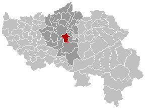 Map, municipality belgium Chaudfontaine